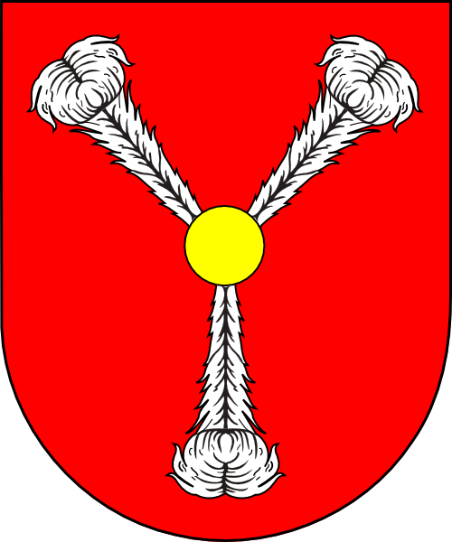 Coat of arms (shield only) of Johann Ernst Emmanuel Joseph von Harrach, bishop of Nitra, Slovakia (1738 - 1739). Identical with the arms of Harrach family.